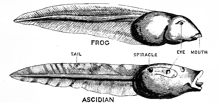 Resemblance between tadpoles of a frog and an ascidian